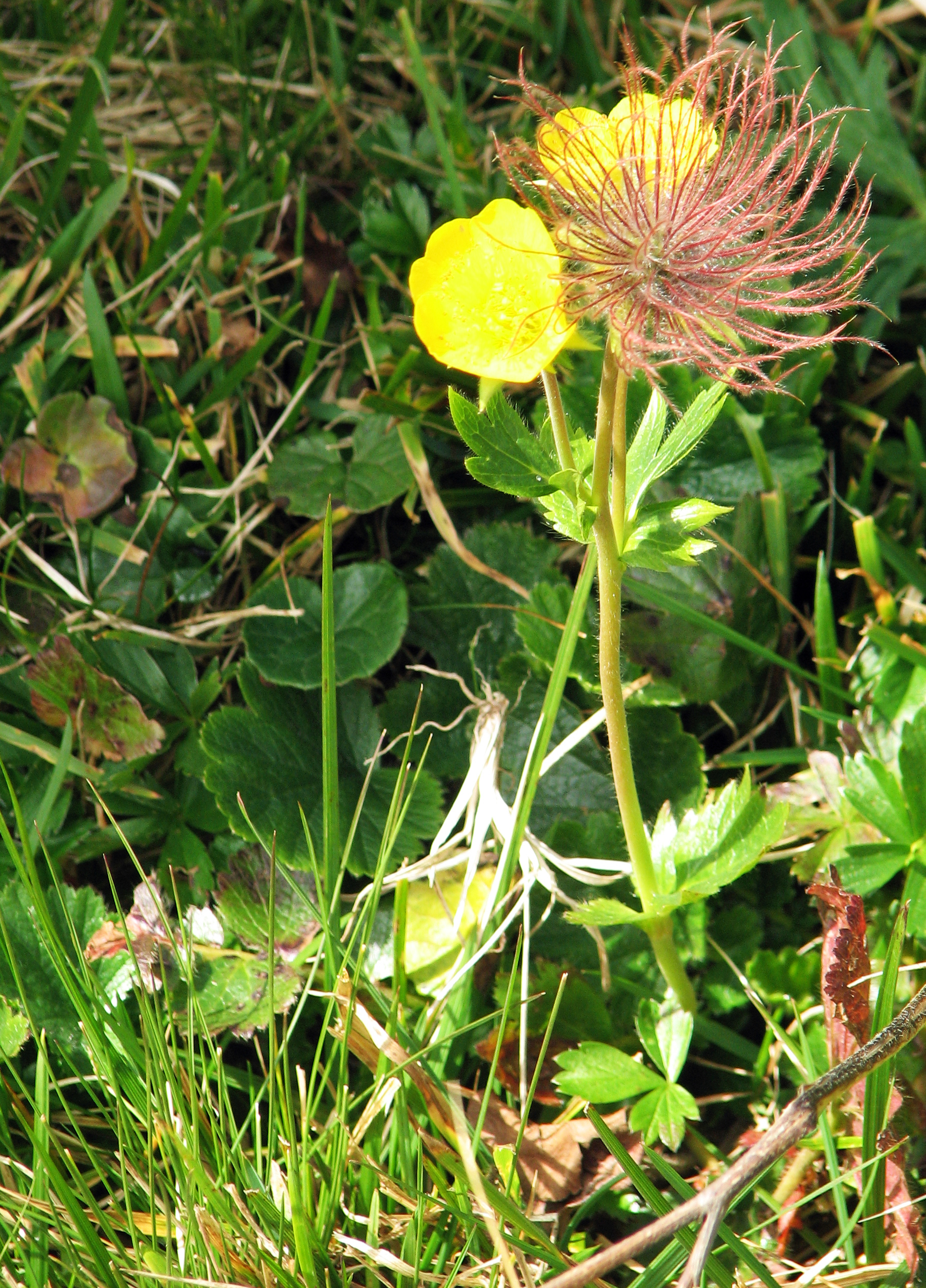 Geum montanum: flower and fruits; Polster, Styria, Austria